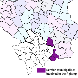 self-made